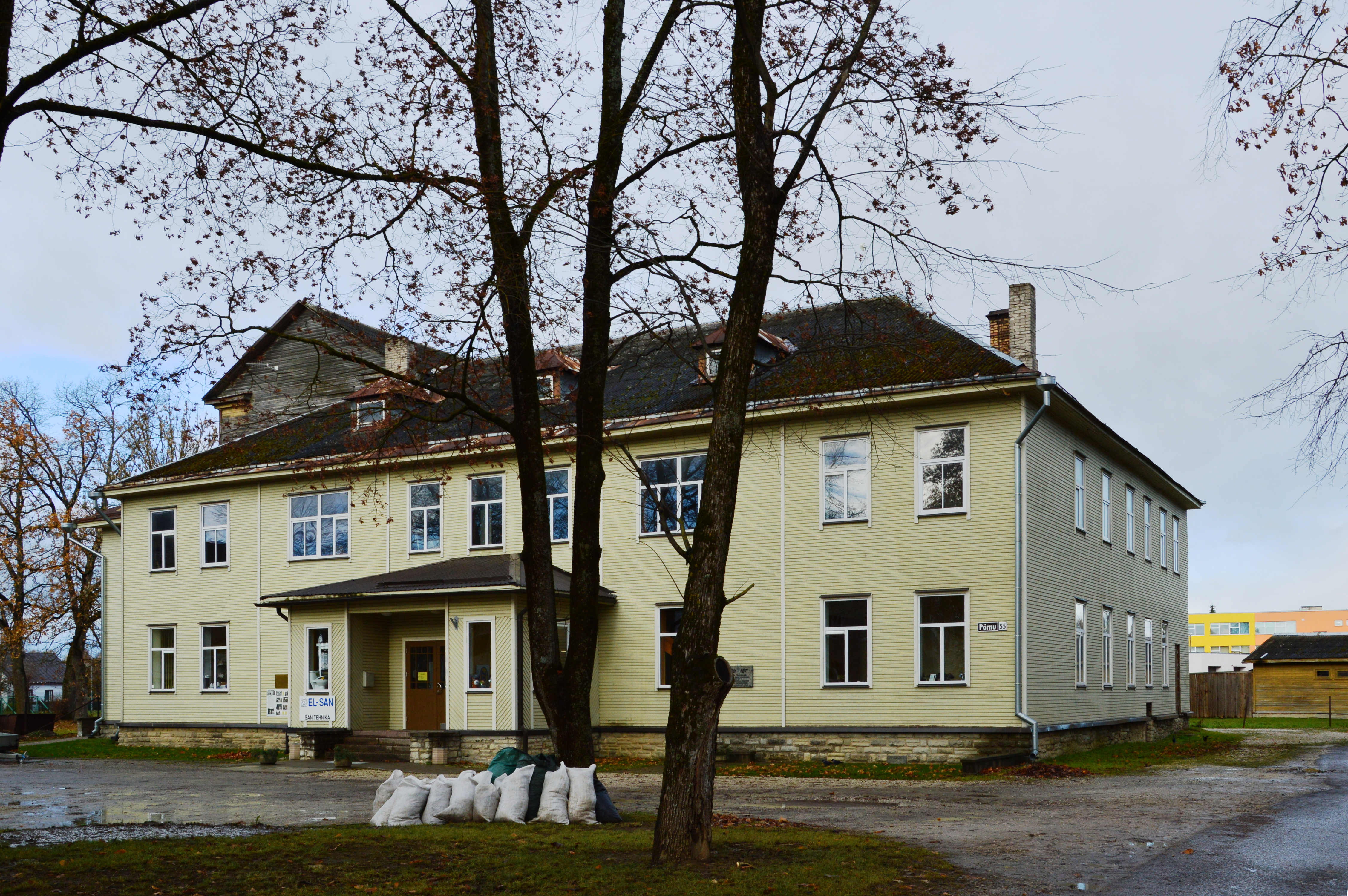 Paide old house of culture. This house was erected for the memory of people from Järva County, who fell in the Estonian War of Independence. As such it was considered as a monument and that made it rather unique among the war monuments (other such monument was Keila elementary school building).